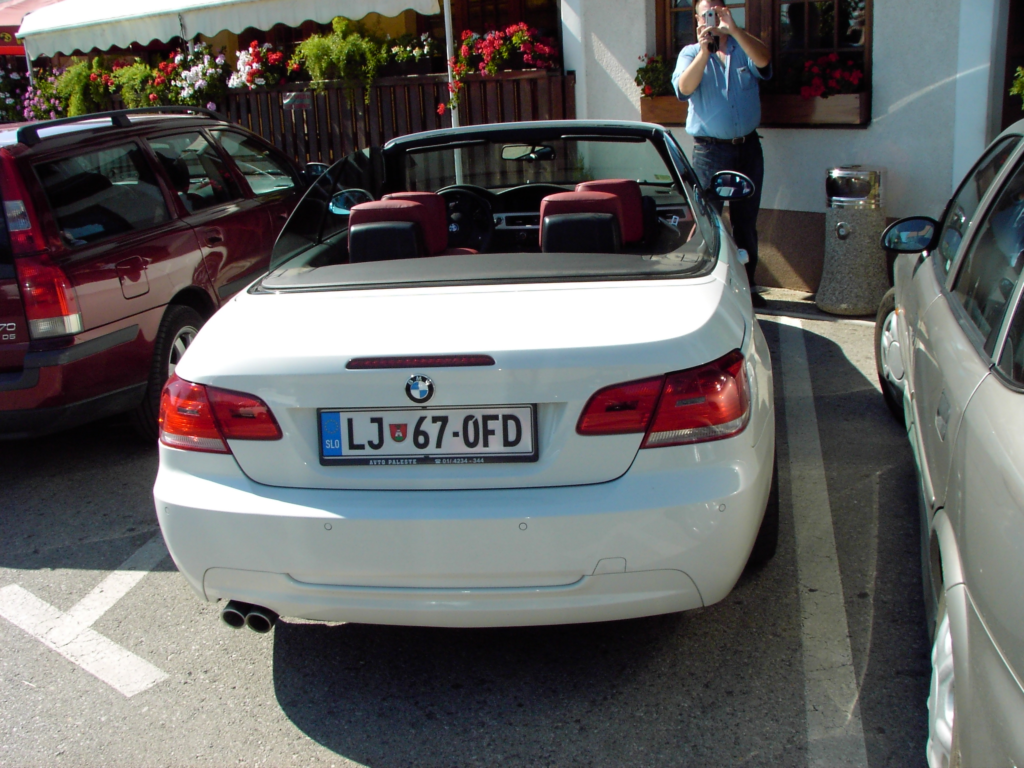 BMW 3 series cabrio in Ljubliana, Slovenia